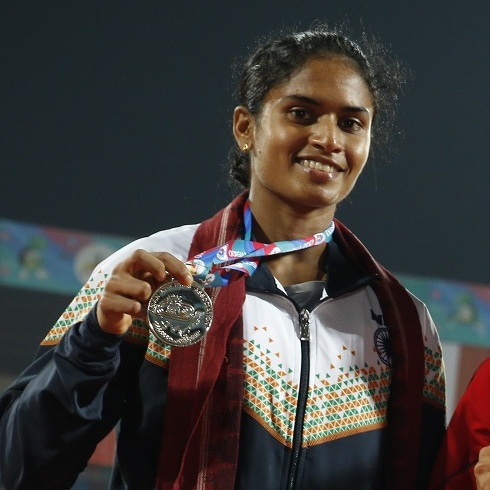 Silver By Neena.V during 22nd Asian Athletics Championships in Bhubaneswar.